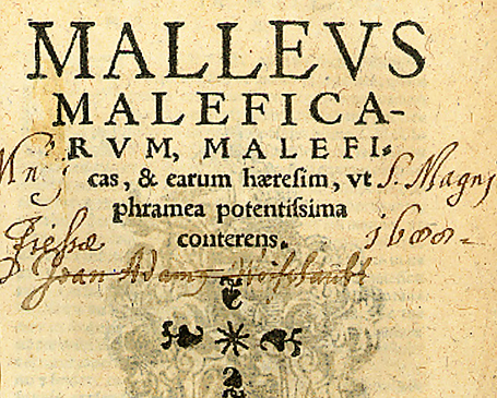 The Hammer of Witches which destroyeth Witches and their heresy like a most powerful spear[1] ↑ The English translation is from this note to Summers' 1928 introduction.